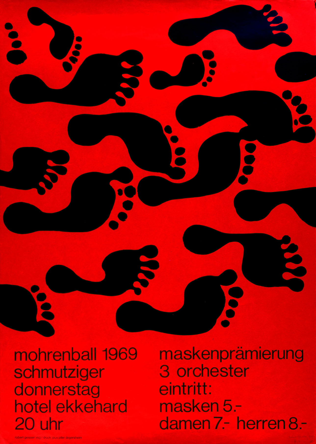 Billboard design by Robert Geisser for event in St. Gallen, 1969